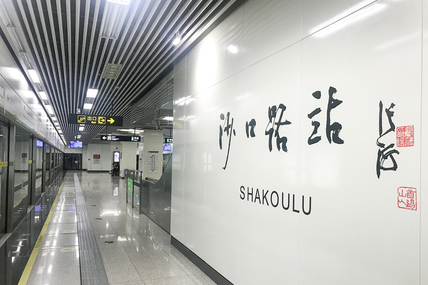 Platform of Shakoulu Station